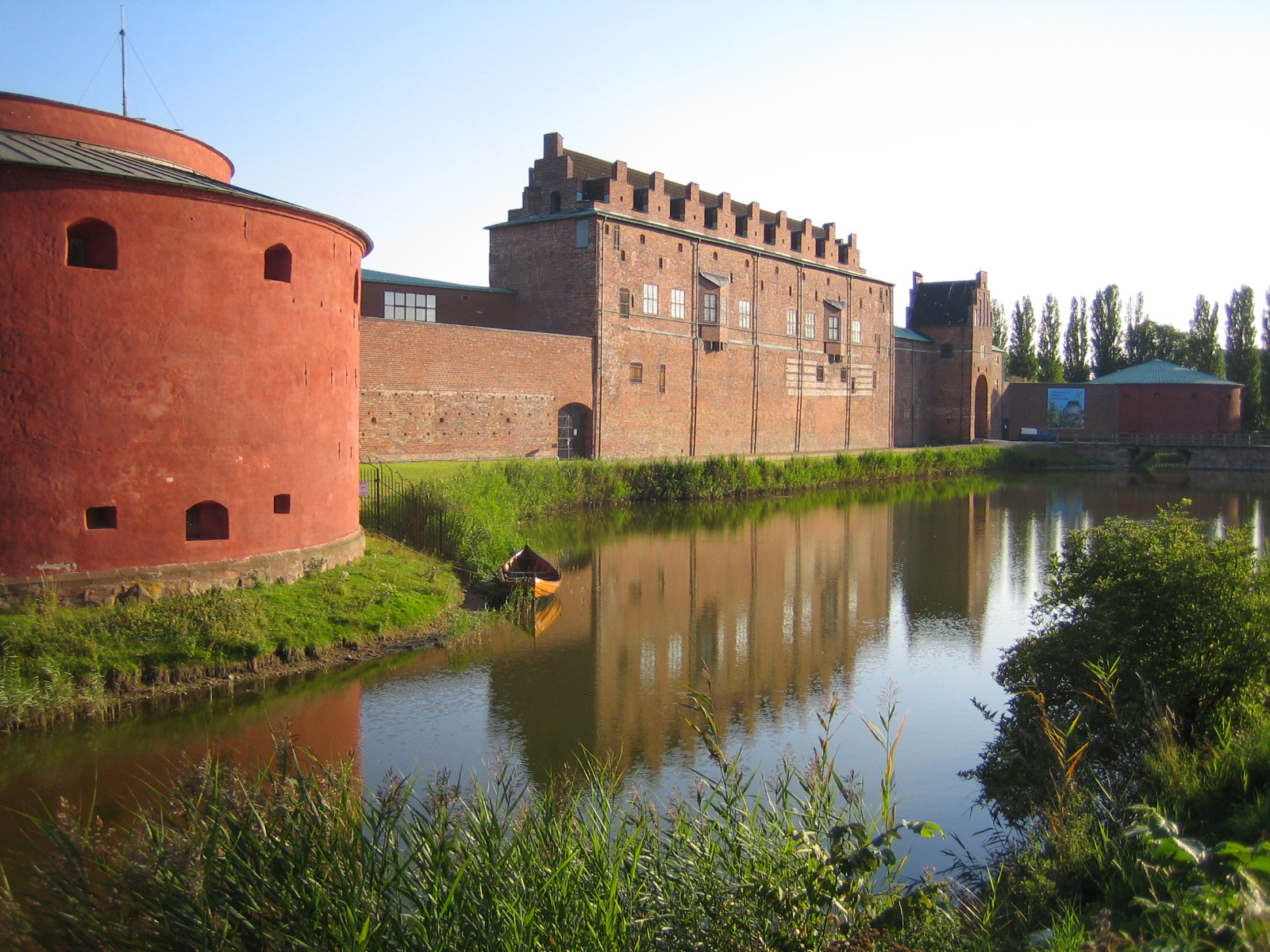 Malmö Castle (Swedish: Malmöhus or Malmöhus slott) is a medieval castle in the city of Malmö nowadays housing museums. Before this it was a prison for several years.